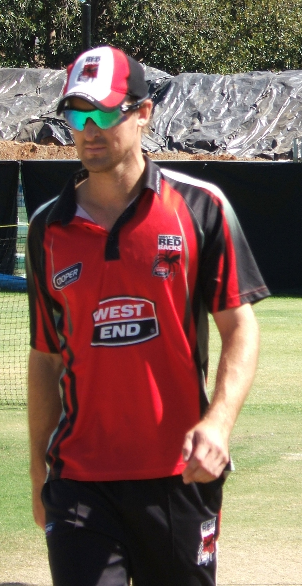 Named person engaging in named action at Adelaide Oval nets/training ground